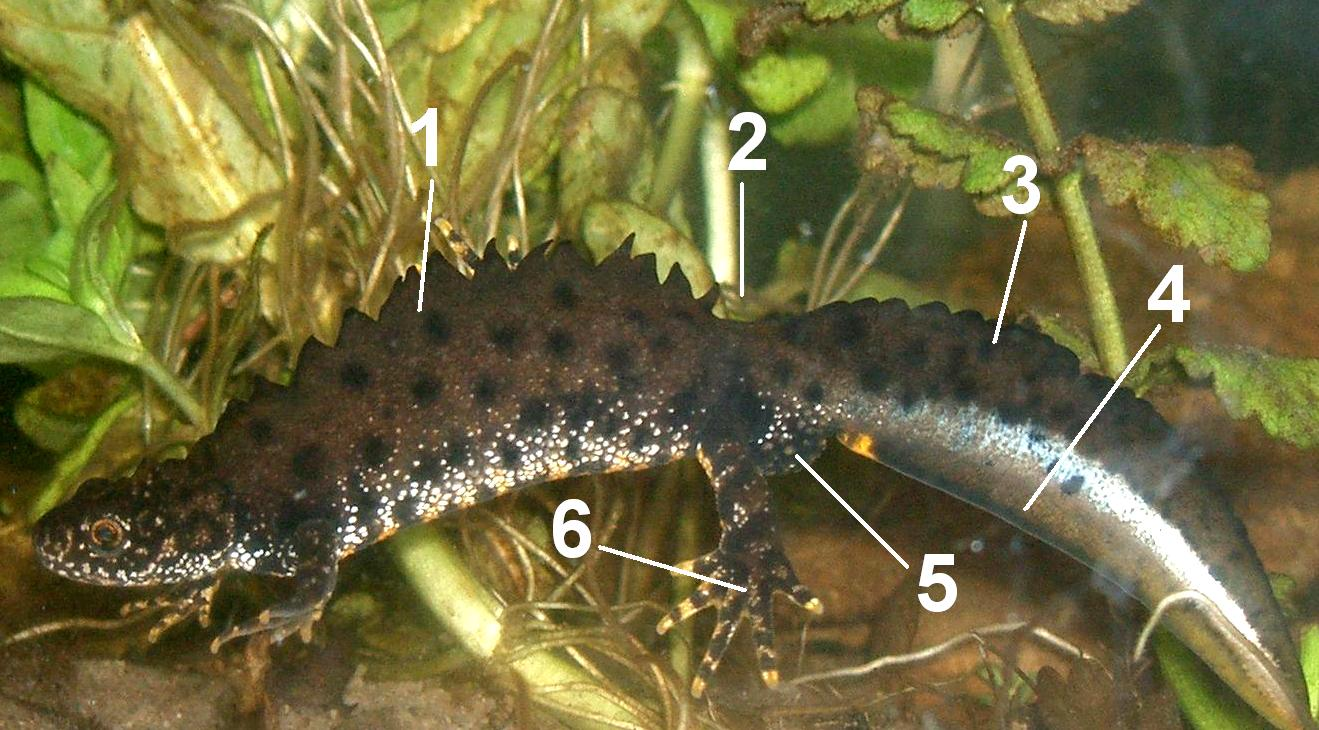 The Crested Newt (Triturus cristatus); male specimen in "mating dress" under water.